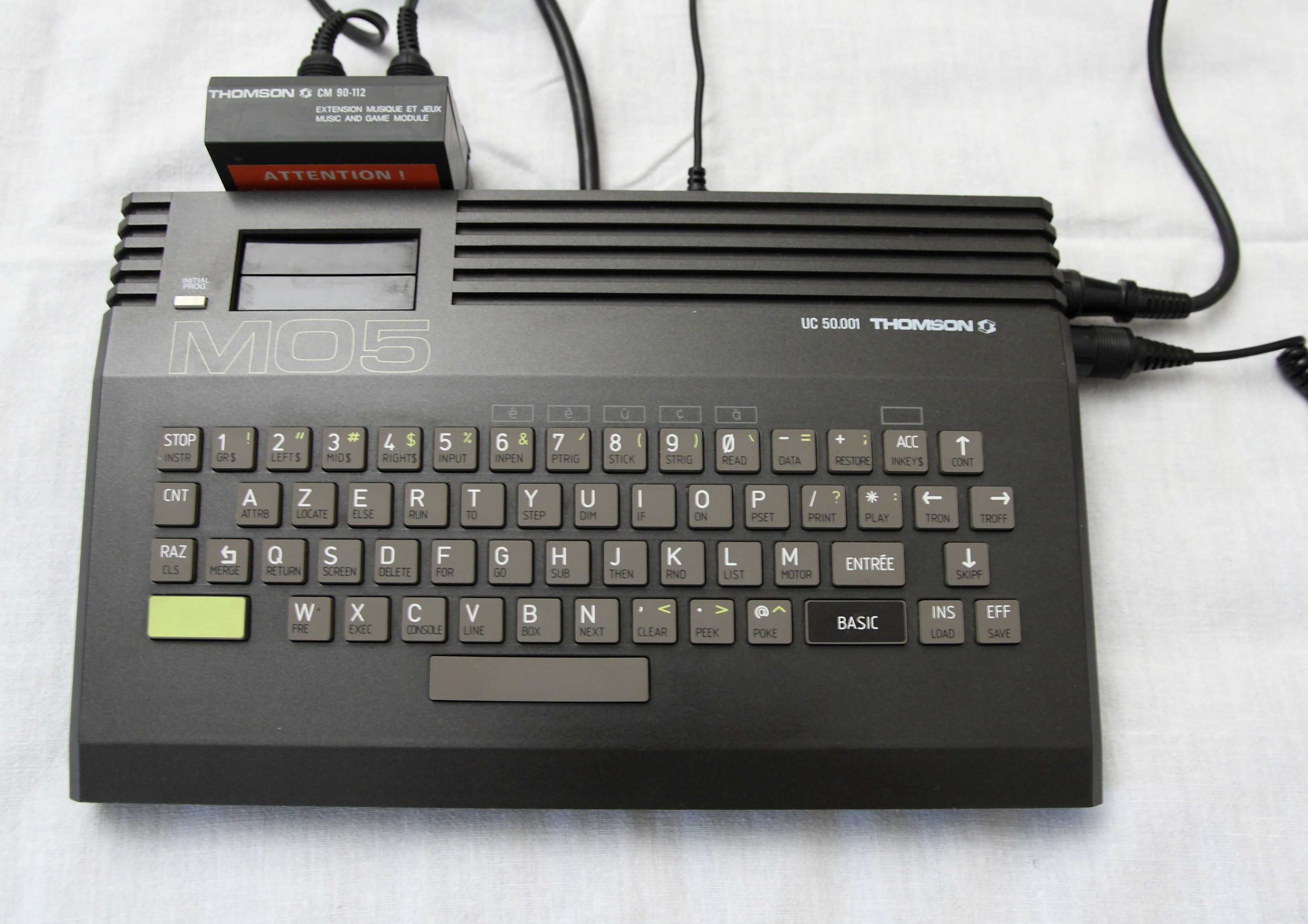 Thomson MO5